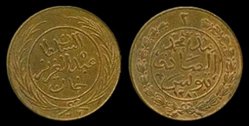 2 Tunisian Kharub coin struck in Tunis in 1281 H (1864 AD), during the reign of Muhammad III as-Sadiq Bey